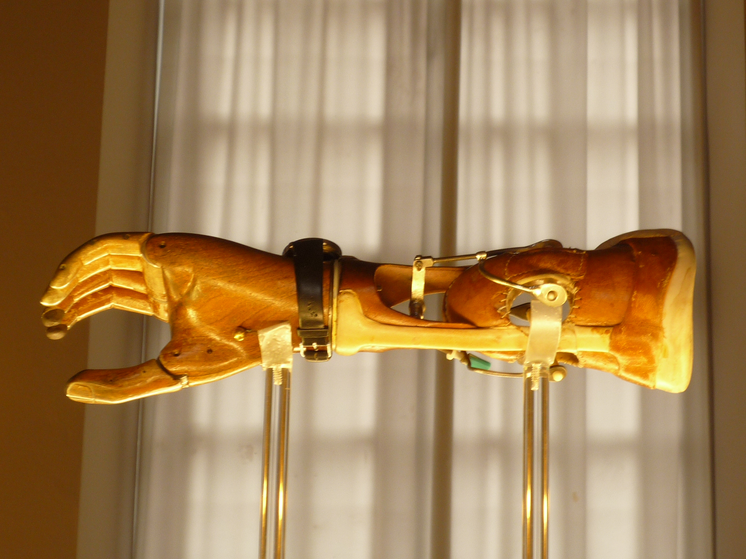 Sauerbruch prosthesis using an artificial hand designed by Jakob Hüfner